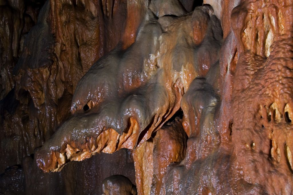 Name of this formation is „Dragonhead”